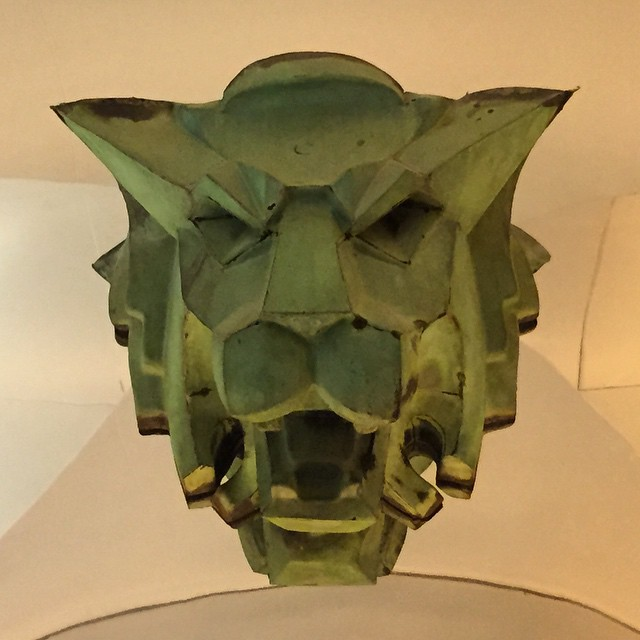 Lion Heads from the National Bank of Commerce Building, St. Louis, Missouri (USA), designed by Isaac S. Taylor, 1902. On display in the elevator at The Wolfsonian-FIU, Miami Beach, Florida.